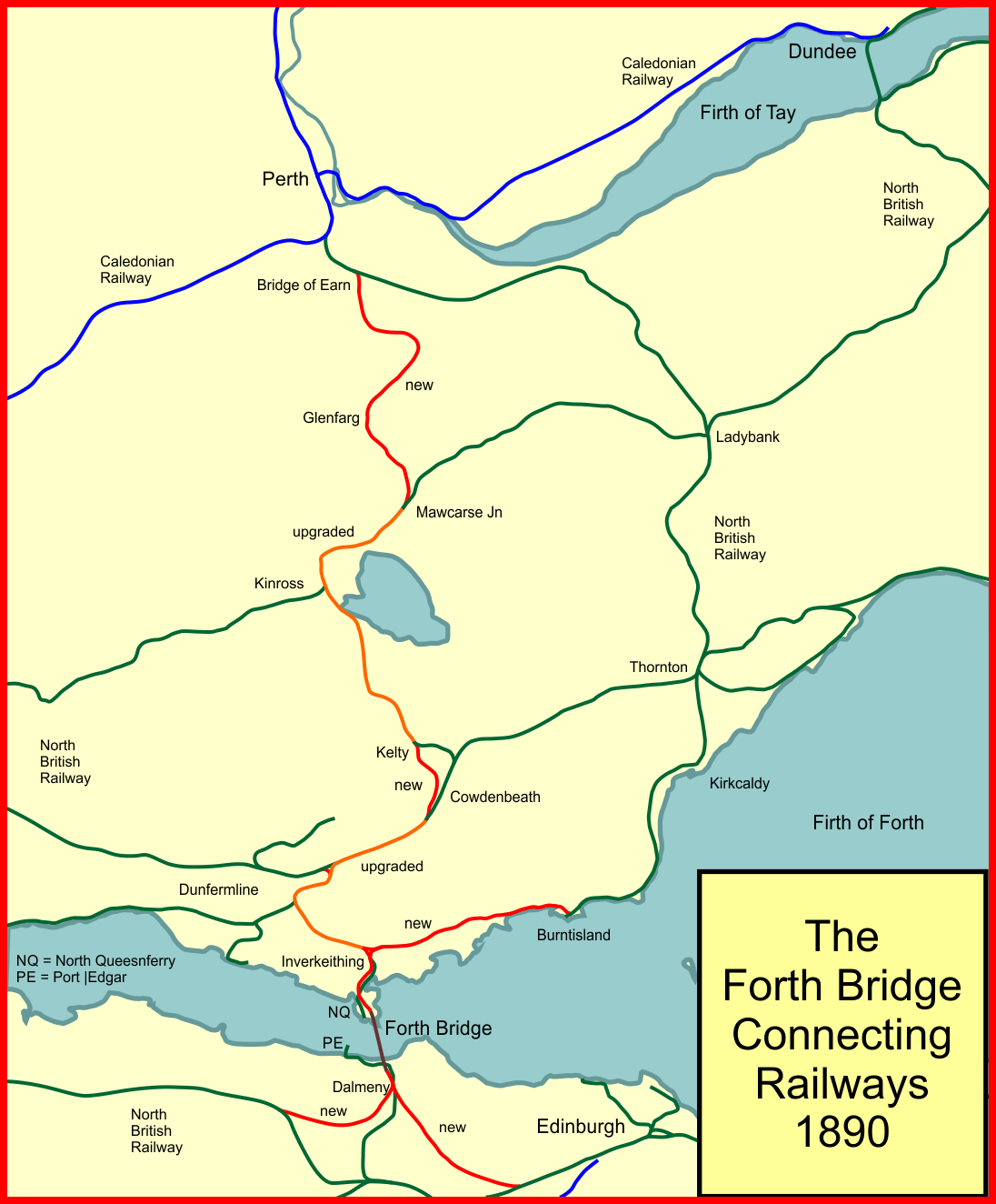 Map of the railways constructed to approach the Forth Bridge, Scotland, in 1890